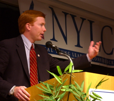 Adam Putnam gives the keynote address to the National Young Leaders Conference, and talks with participants following the event. source